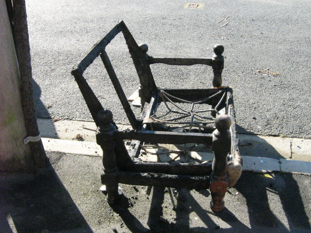 Otago University Student's are infamous for their couch burning after drunken Thursday, Friday or Saturday night antics.